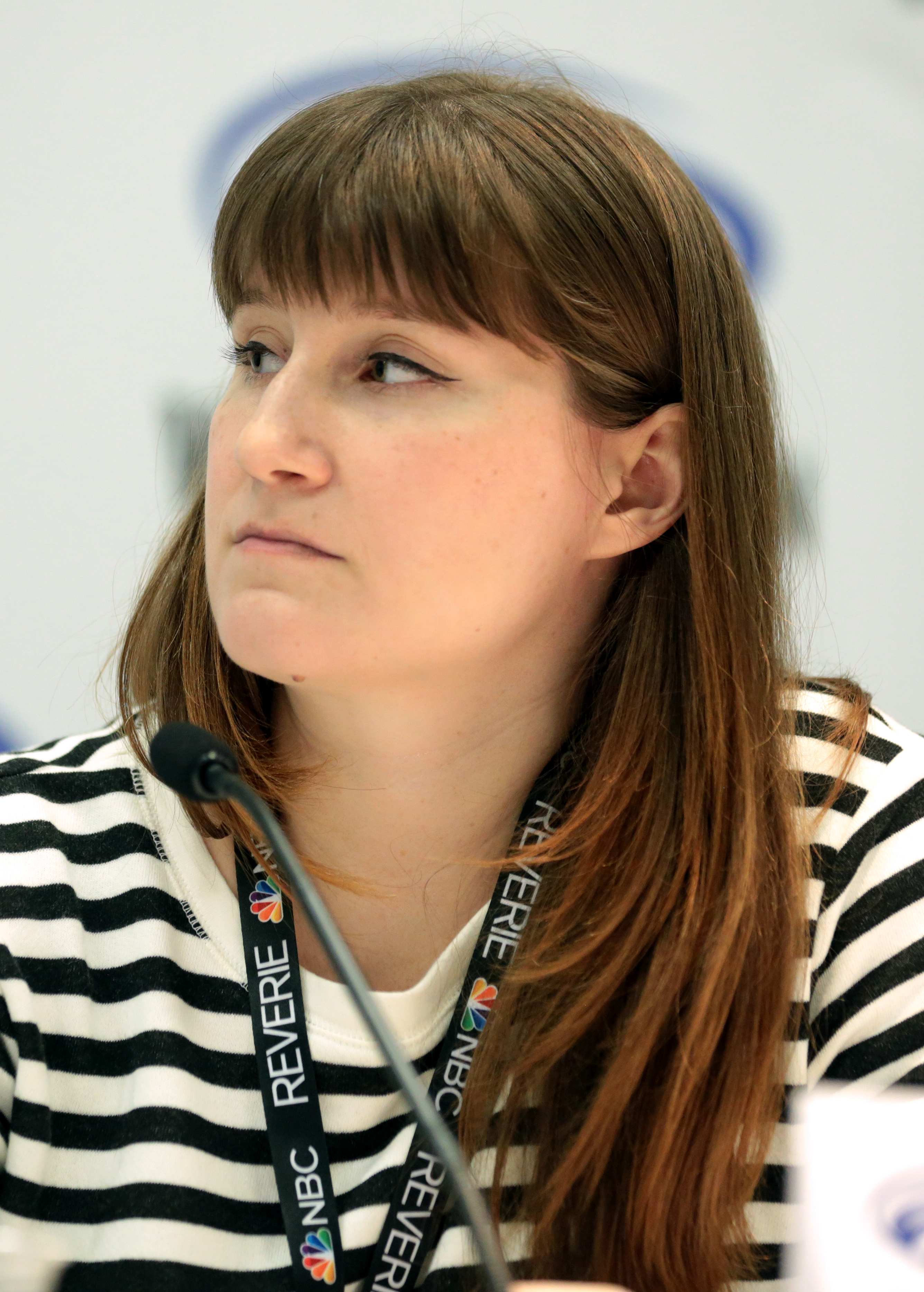 Faith Erin Hicks speaking at the 2018 WonderCon in Anaheim, California.